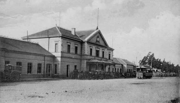 Rosario Norte train station, terminus of Buenos Aires and Rosario Railway.